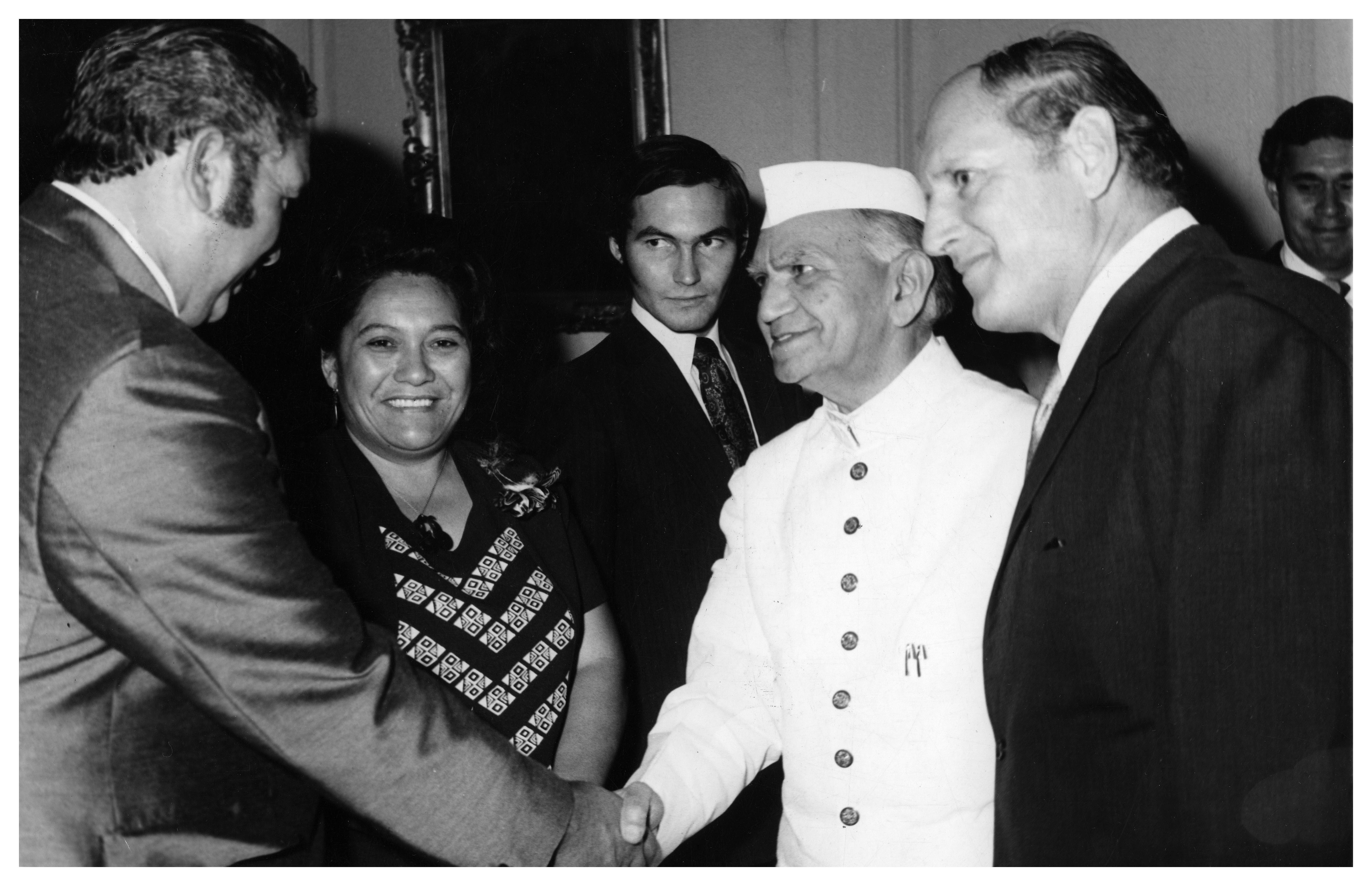 On 23 May 1966, following the death of her father King Korokī five days earlier, Princess Piki was crowned as the first Māori Queen. She assumed her mother’s name, Te Ātairangikaahu. Te Ātairangikaahu is to date the longest-serving Māori monarch. She died in August 2006, shortly after celebrating her 40th jubilee as Queen. The photograph above shows Queen Te Ātairangikaahu in New Delhi in 1975. The photograph was transferred to Archives New Zealand by the Ministry of Foreign Affairs, Head Office. Archives New Zealand reference: AAEG 626 Box 1/e 11 part 5